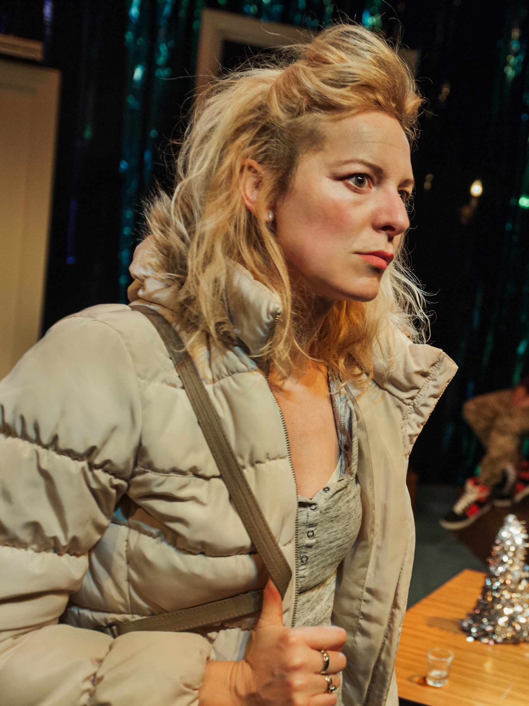 Christine Exner in the Copenhagen theater Folketeatret's production of the play "Varmestuen" by Anna Bro.